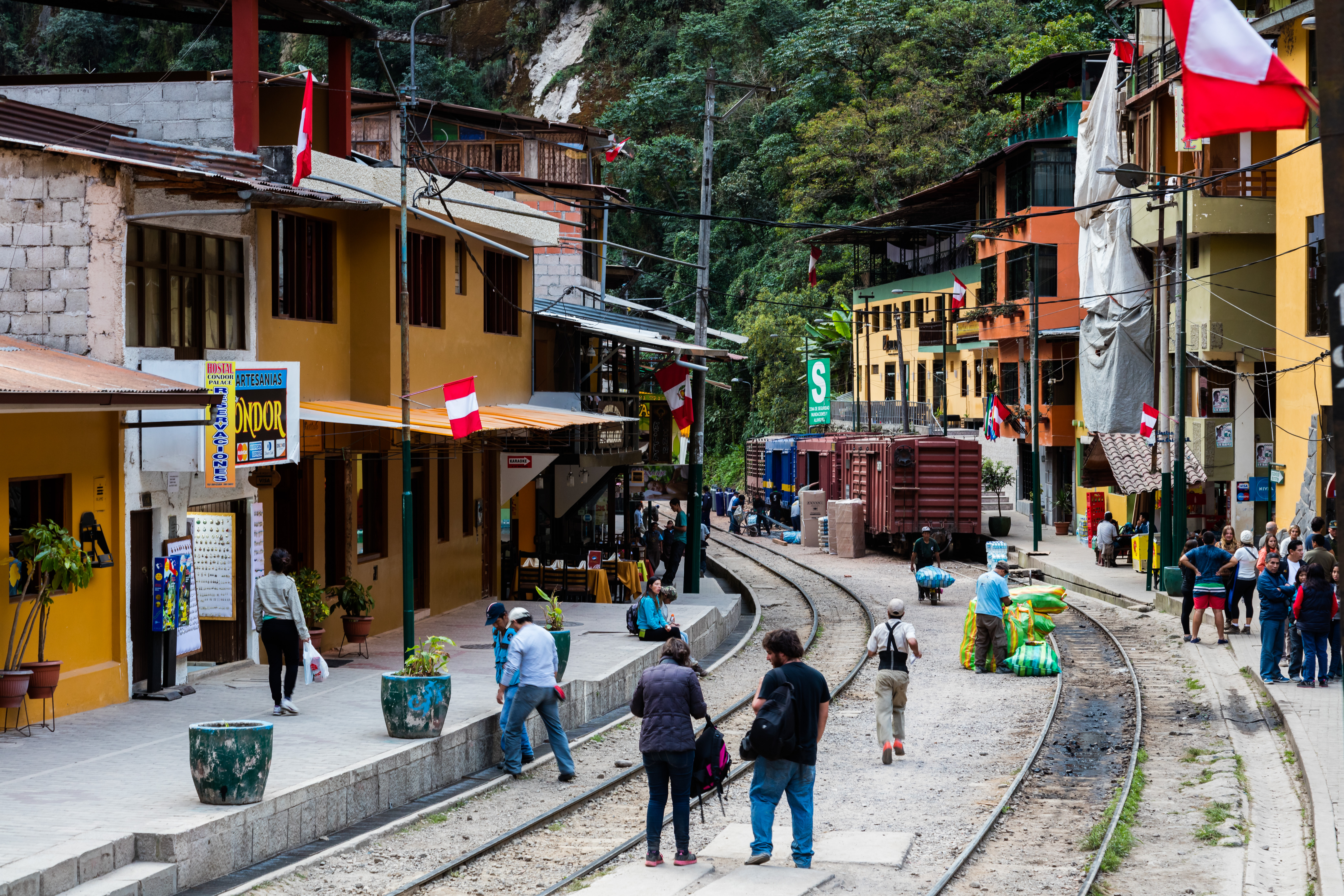 Aguas Calientes, Cuzco, Peru